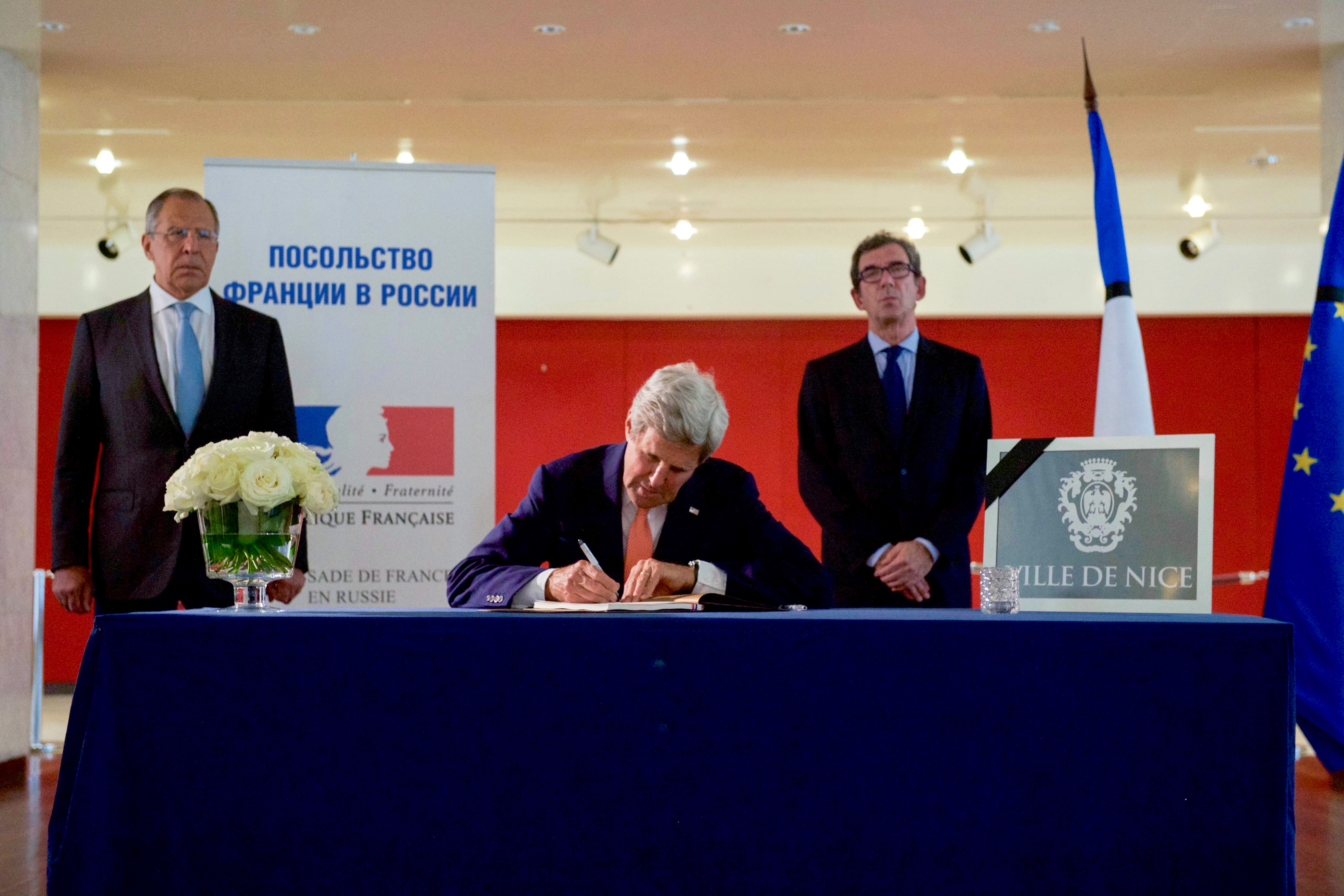 Russian Foreign Minister Sergey Lavrov and French Ambassador to Russia Jean-Maurie Ripert look on as U.S. Secretary of State John Kerry signs a condolence book on July 15, 2016, at the French Embassy in Moscow, Russia, after the two Ministers each laid a bouquet of roses outside in memory of the victims of the prior day's terrorist truck attack in Nice, France. [State Department Photo/ Public Domain]